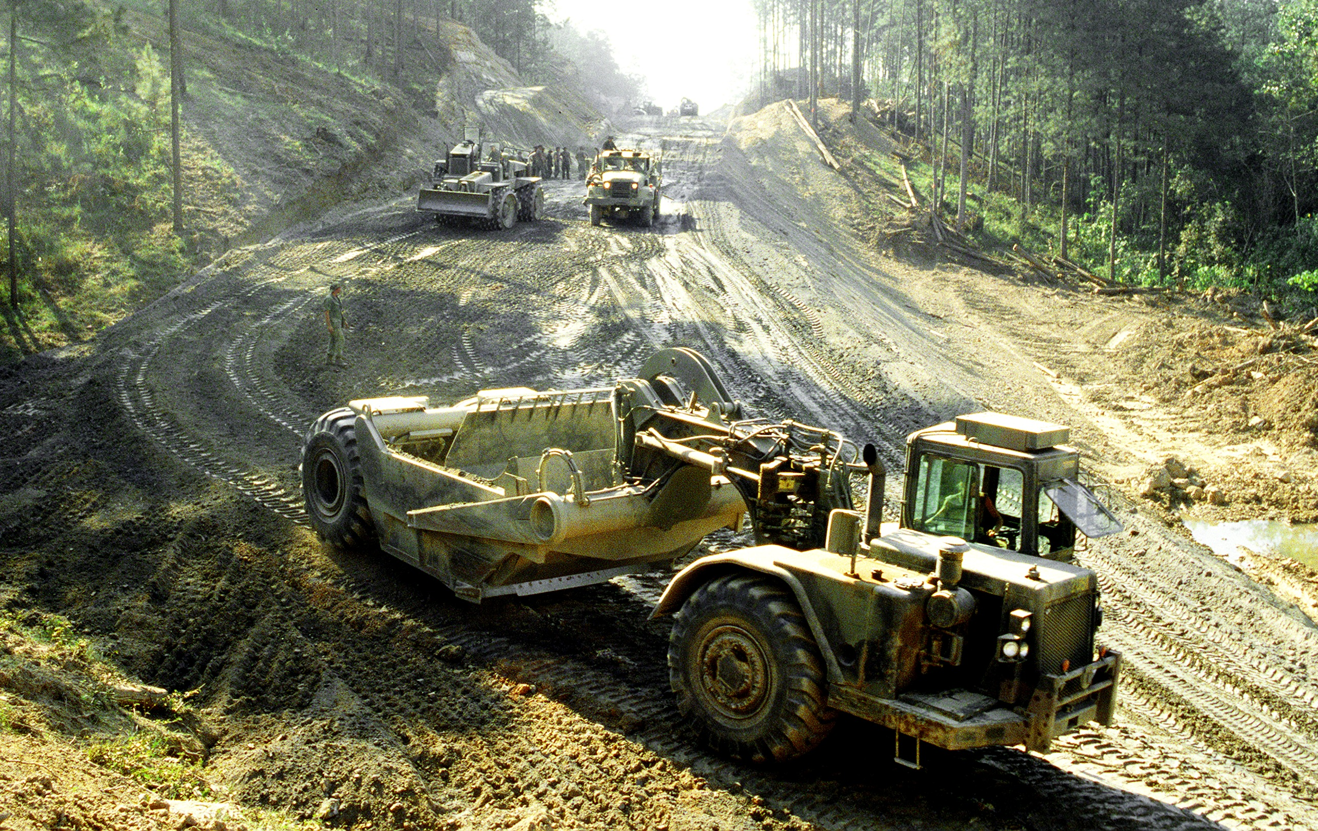 A West Virginia Army National Guard earthmoving scraper works on a roadcut during Task Force III, a civic action program in which the guard is also providing health and veterinary services for residents of the Puenta Grande area.